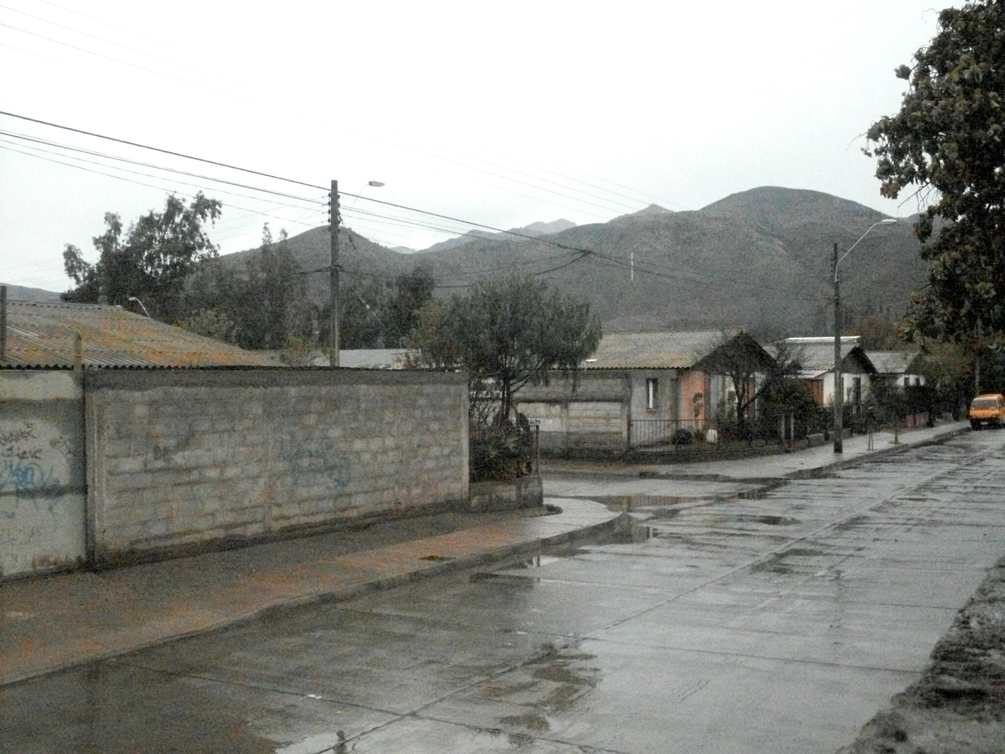 Baquedano street of Vicuña, Chile.